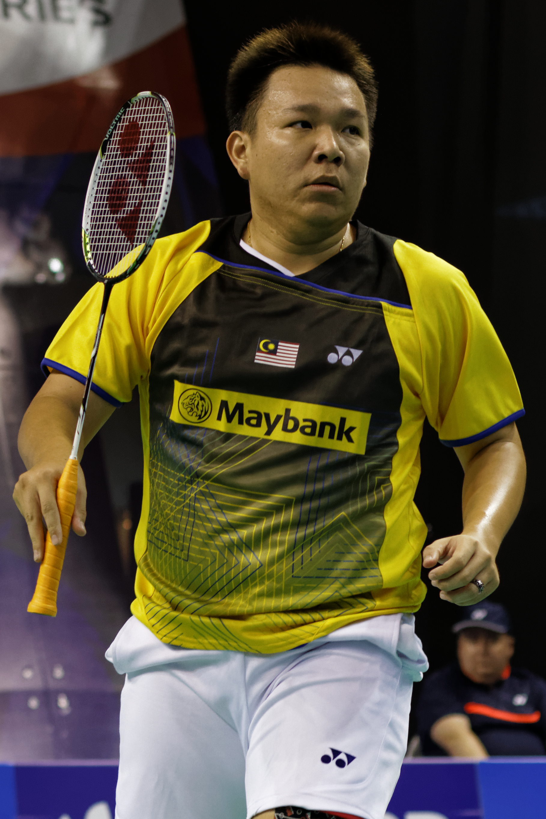 2013 French open. Men's doubles quarterfinal. Hoon Thien How and Tan Wee Kiong vs Lee Yong-dae and Yoo Yeon-seong. Hoon Thien How.